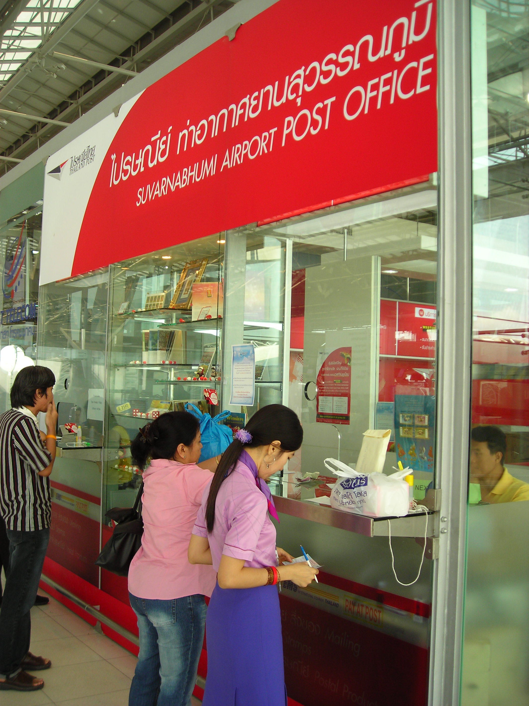 Suvarnabhumi Post office (Thai Post) at Suvarnabhumi International Airport near Bangkok, Thailand, with customers